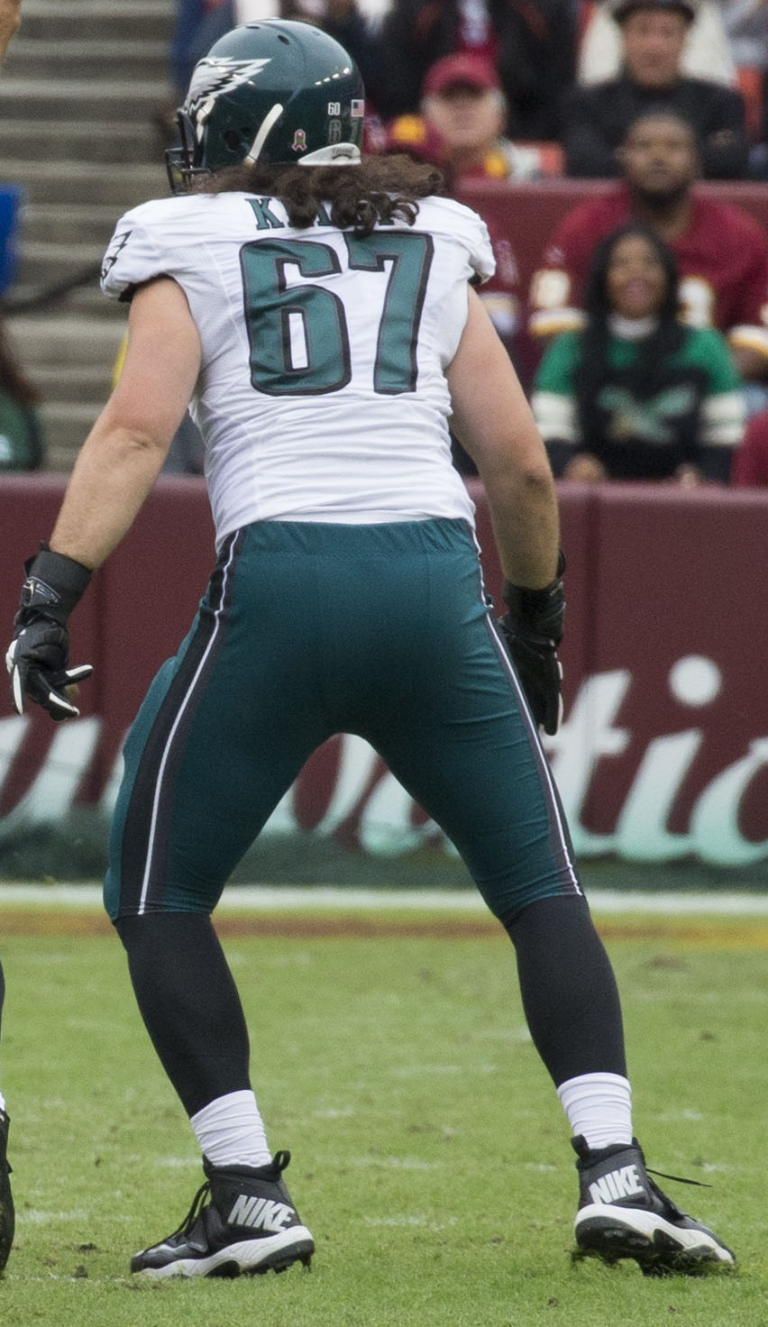 Eagles at Redskins 10/04/15